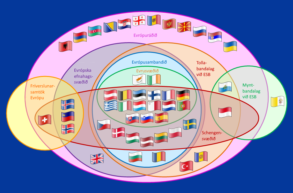 Euler diagram of supranational European Bodies in Icelandic